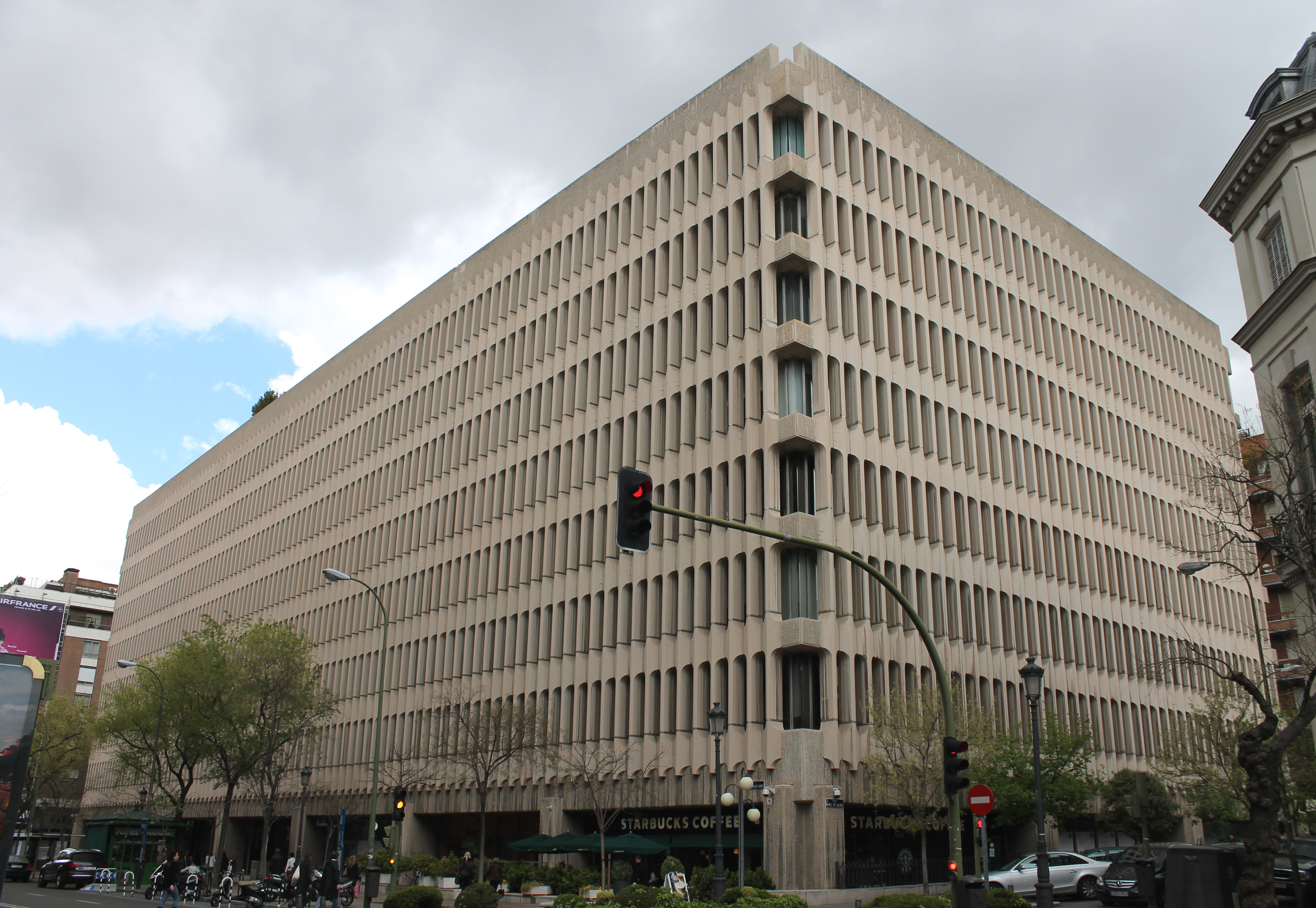 Façade of Beatriz Building in Madrid (Spain).